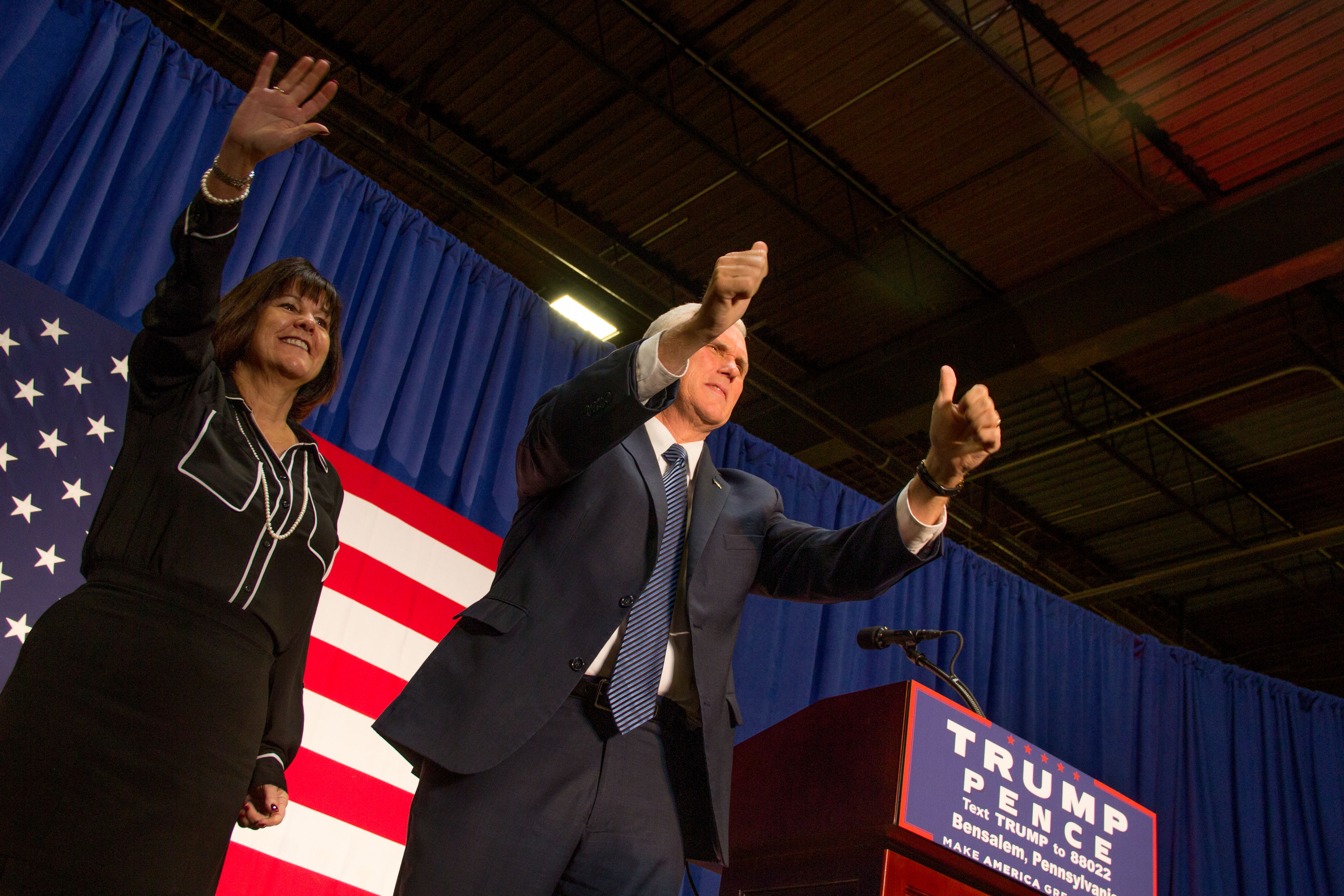 Pence Rally Bensalem, PA